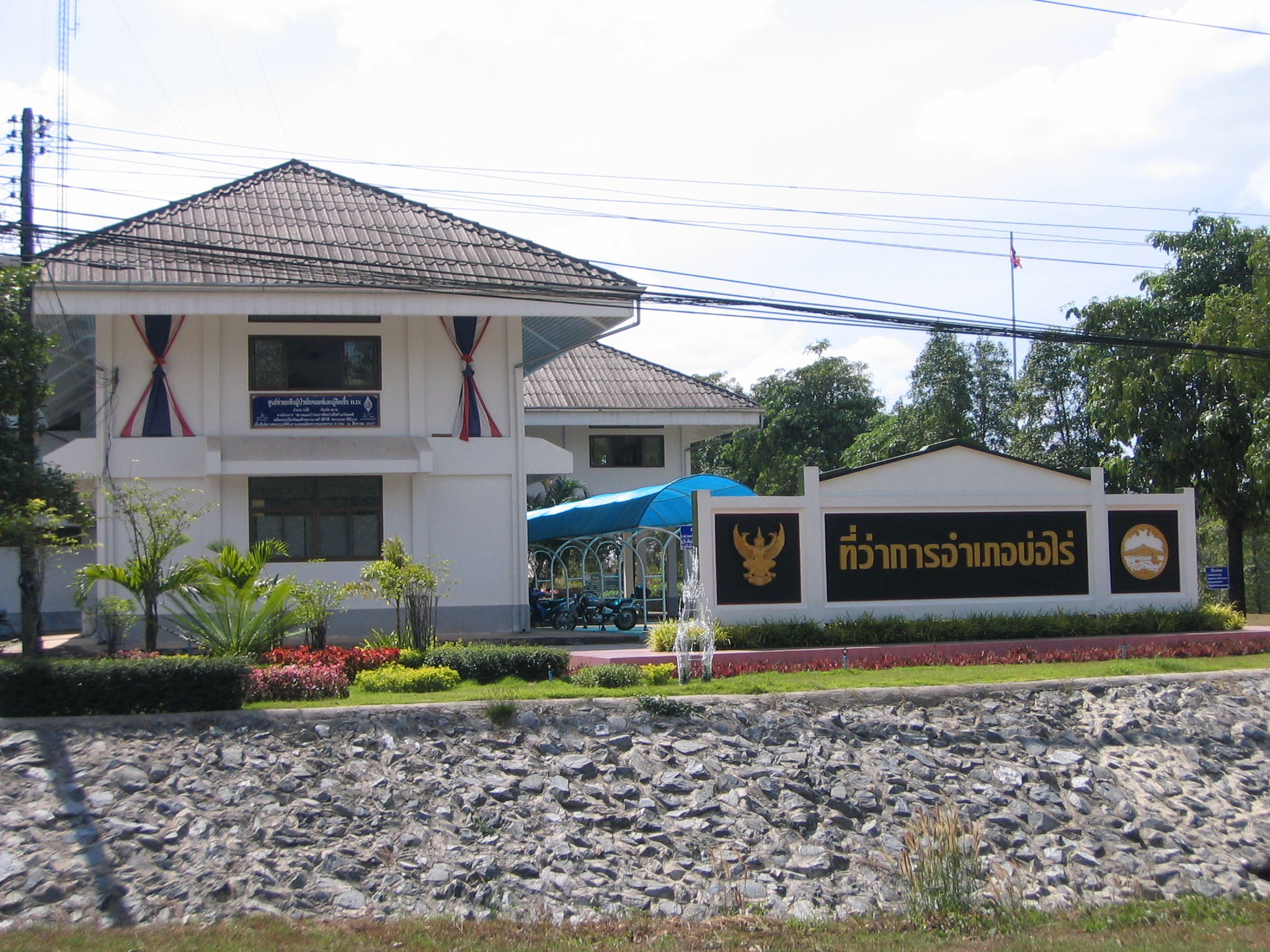 The building of the Amphoe Bo Rai District Office, Trat province, Thailand.